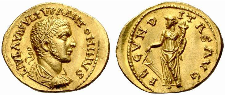 Uranius Antoninus, AV aureus. L IVL AVR SVLP VRA ANTONINVS, laureate, draped, cuirassed bust right. FECVNDITAS AVG, Fortuna standing left, holding rudder and cornucopiae. RIC 3a.